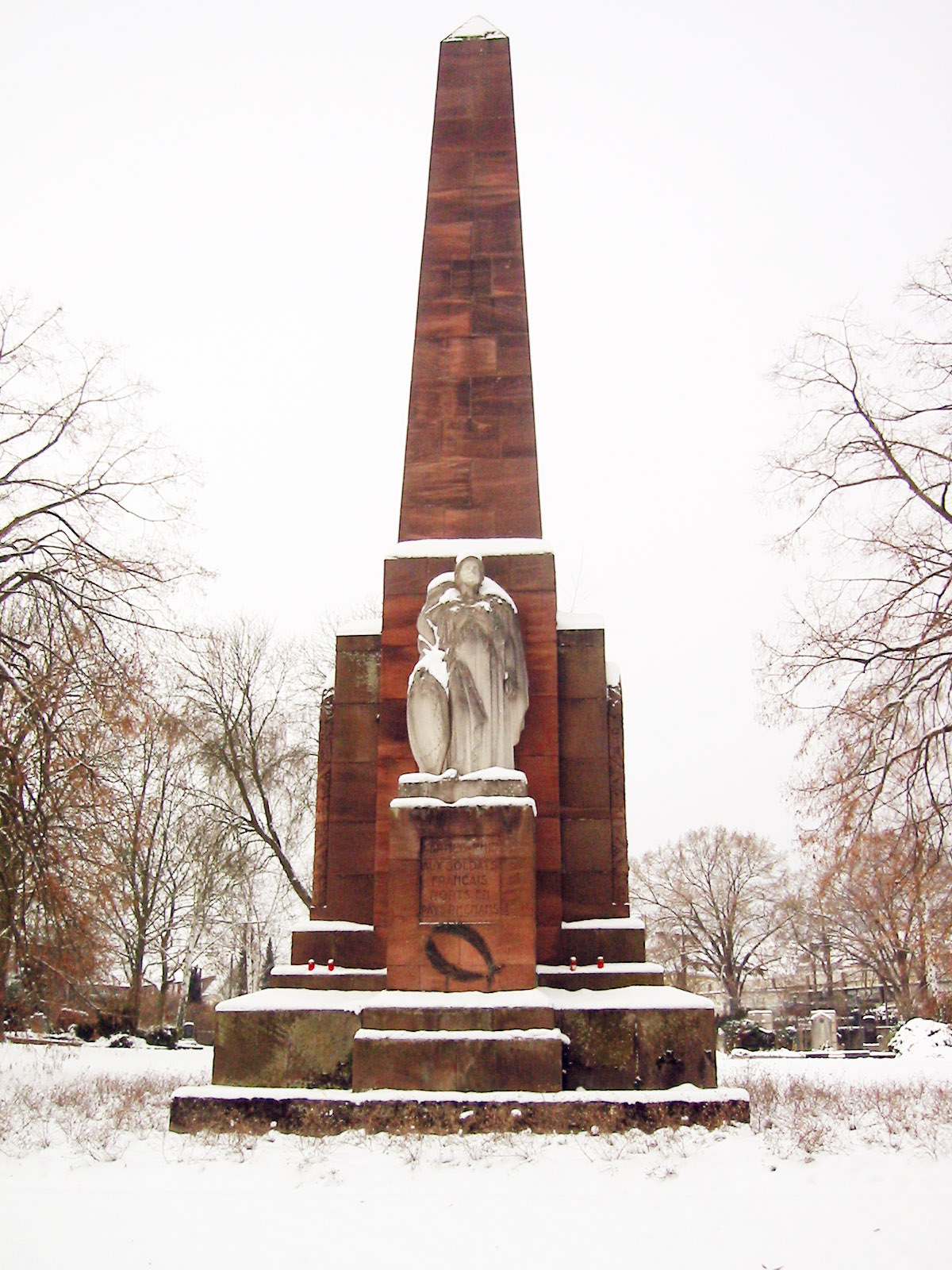 War-Memorial at the main-cemetary of the city of Mainz (center of french section). Dedicated to all french world war I. soldiers died in the Rhine region. Errected in 1925. Artist: Louis-Henri Nicot